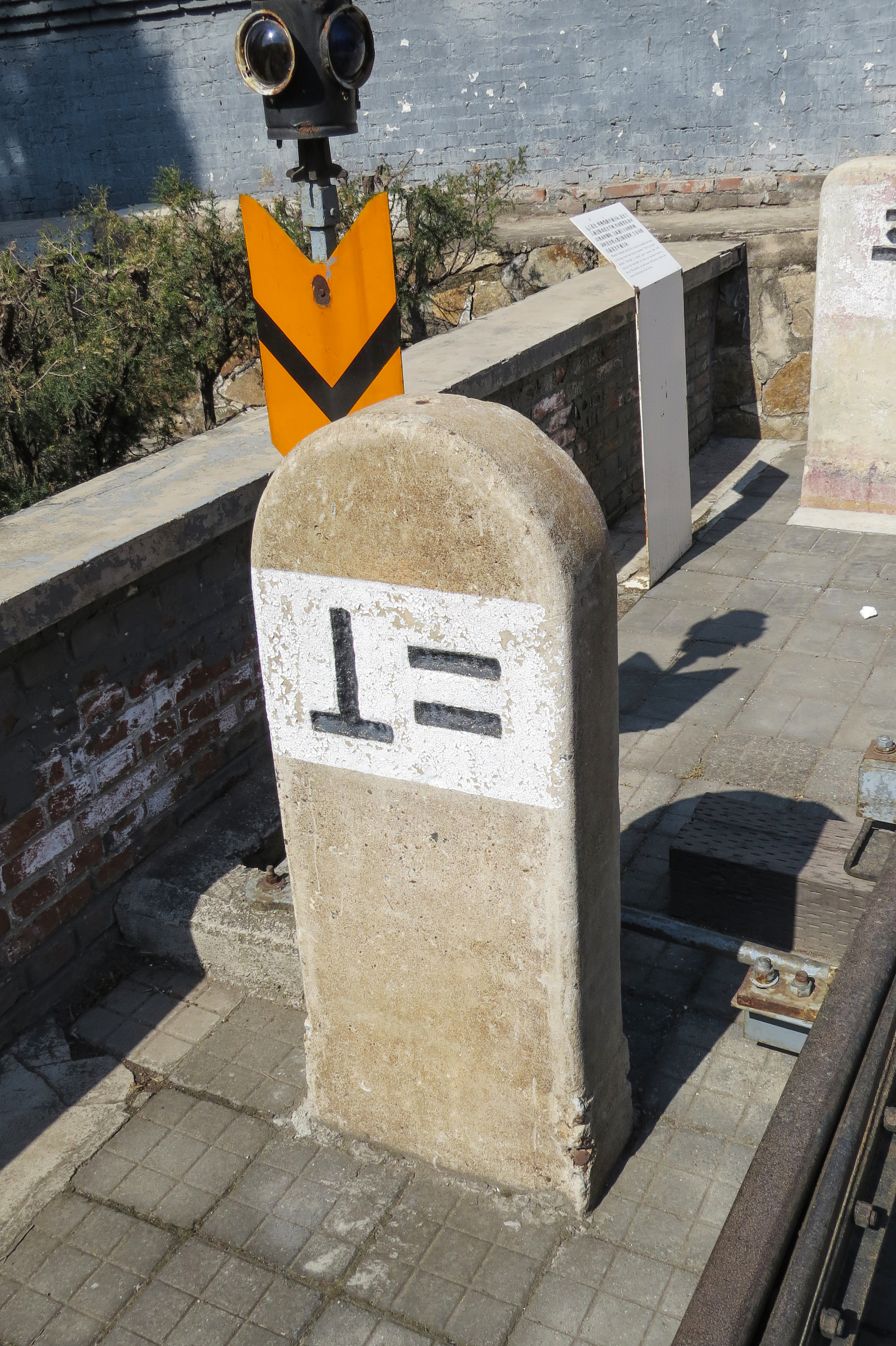 62km? Maybe.